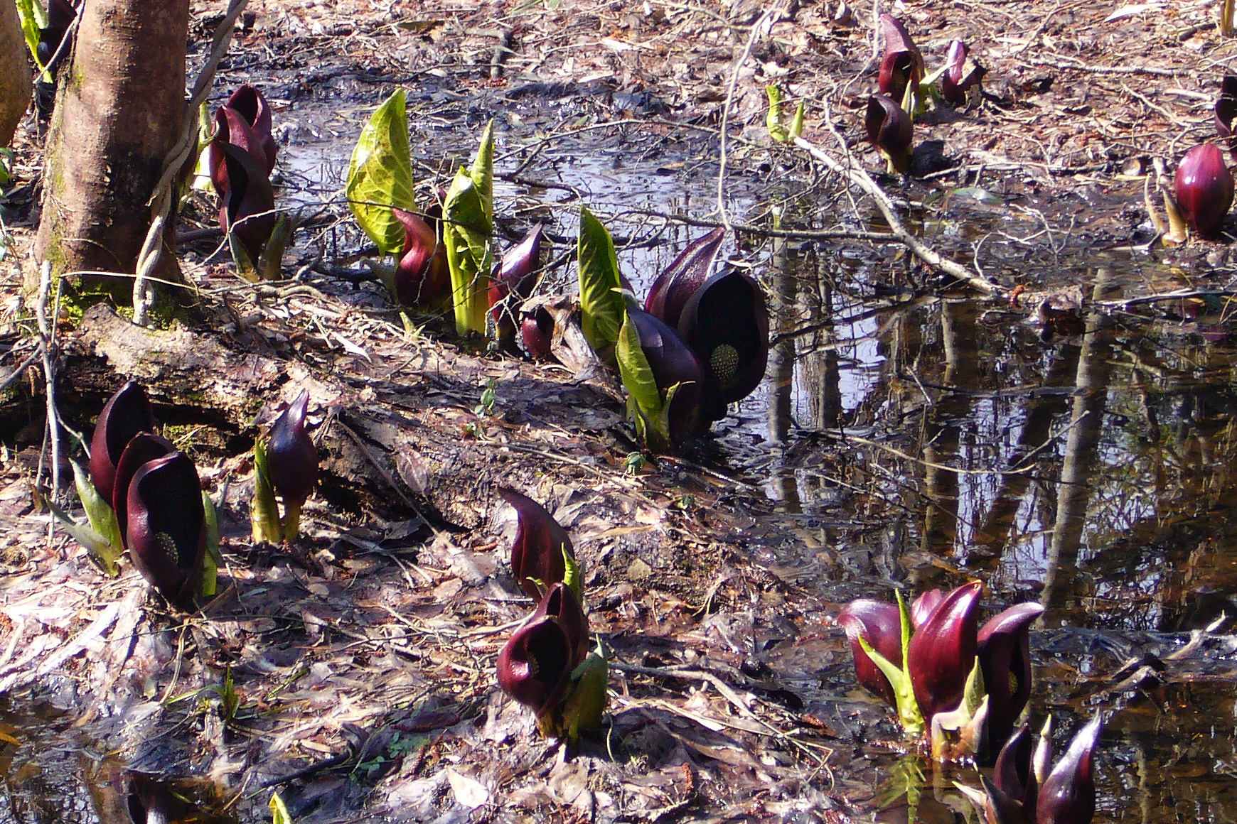 The Colony of Eastern Skunk Cabbage in Imazu, Takashima, Shiga prefecture, Japan